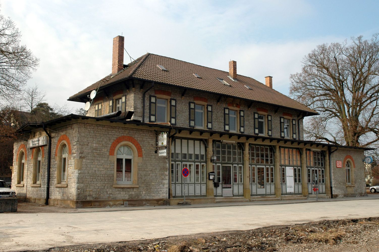 Train station of Möckmühl.